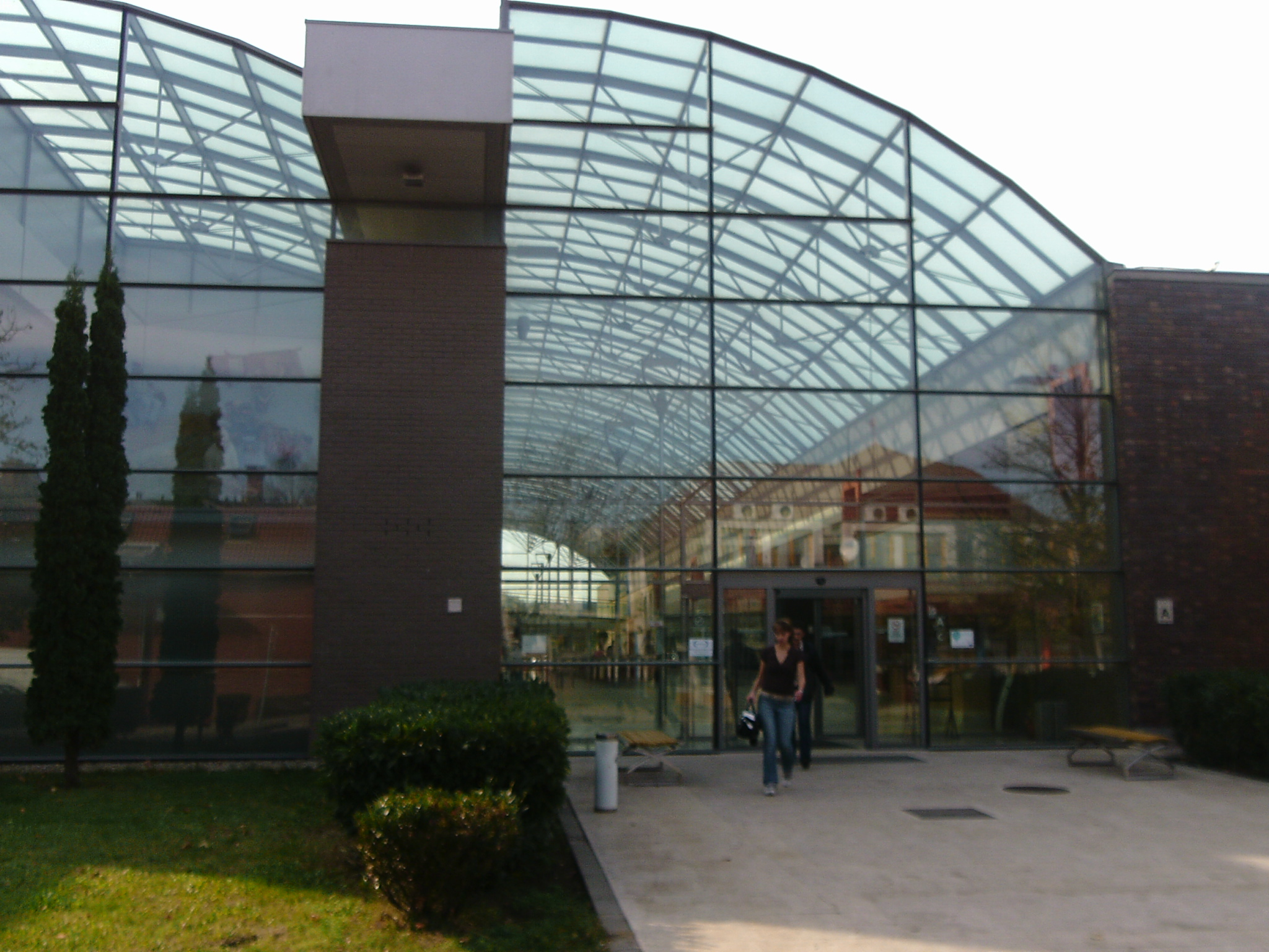 College of Dunaujvaros, Dunaujvaros, Hungary A épület